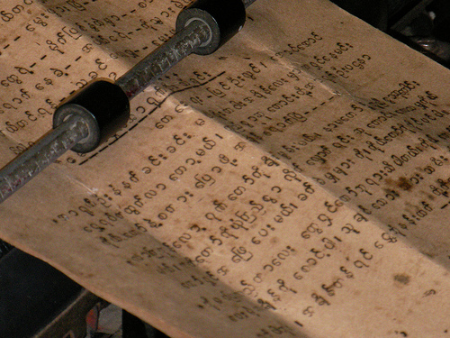 Unknown language: Ecriture birmane sous presse